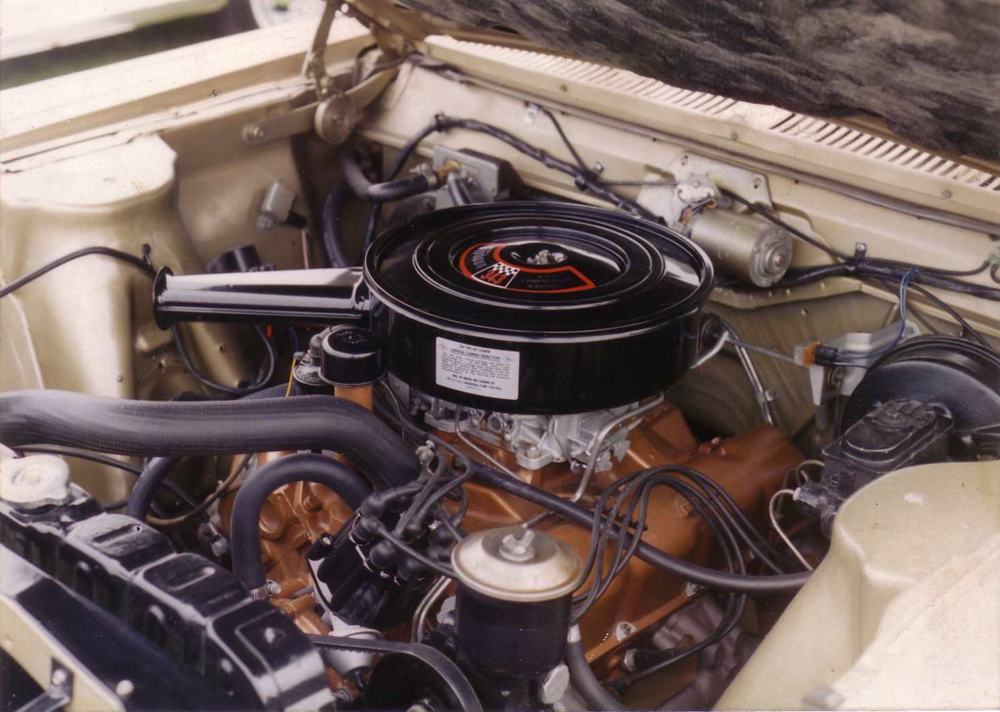 1967 AMC Marlin - a "personal luxury" two-door fastback made by American Motors Corporation. The engine bay with a "Typhoon" 343 cu in (5.6 L) 280 hp (209 kW) high-compression 4-barrel V8.